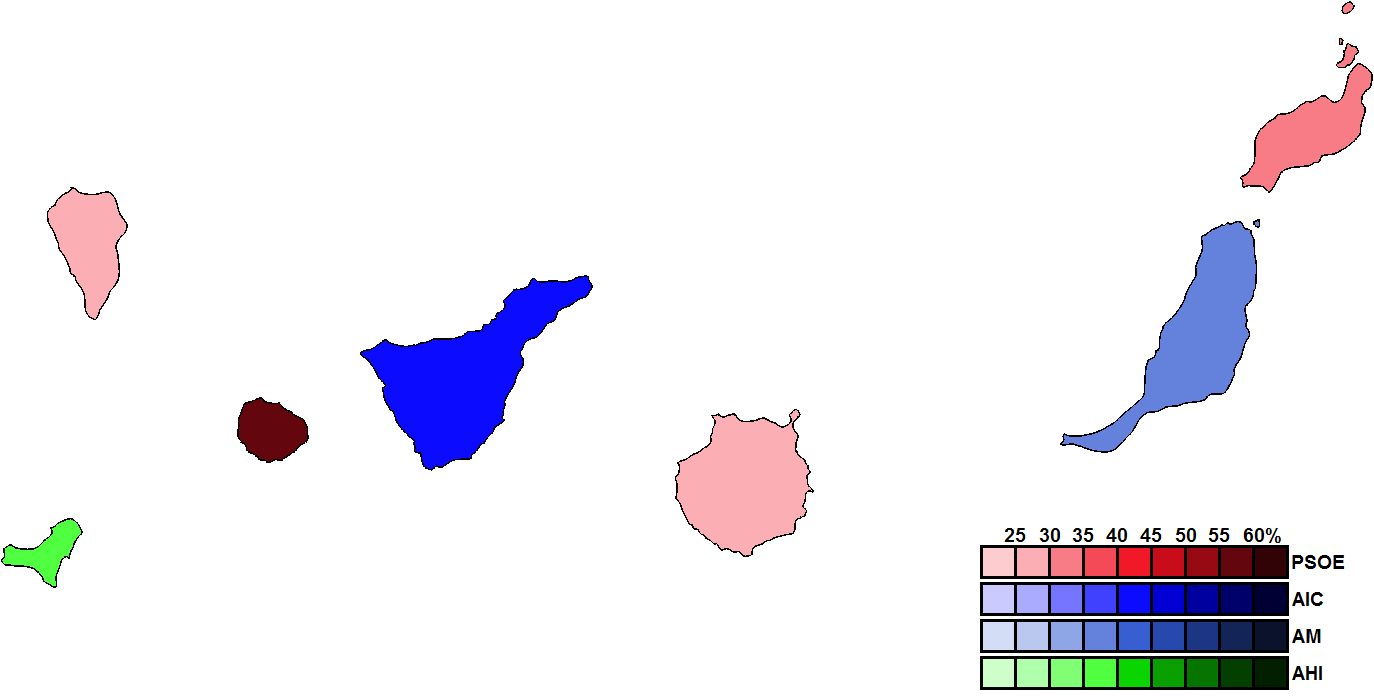 District results for the 1987 Canarian regional election.